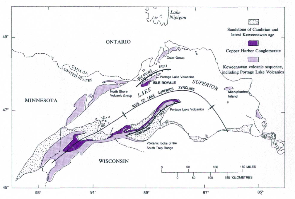 USGS Lake Superior syncline